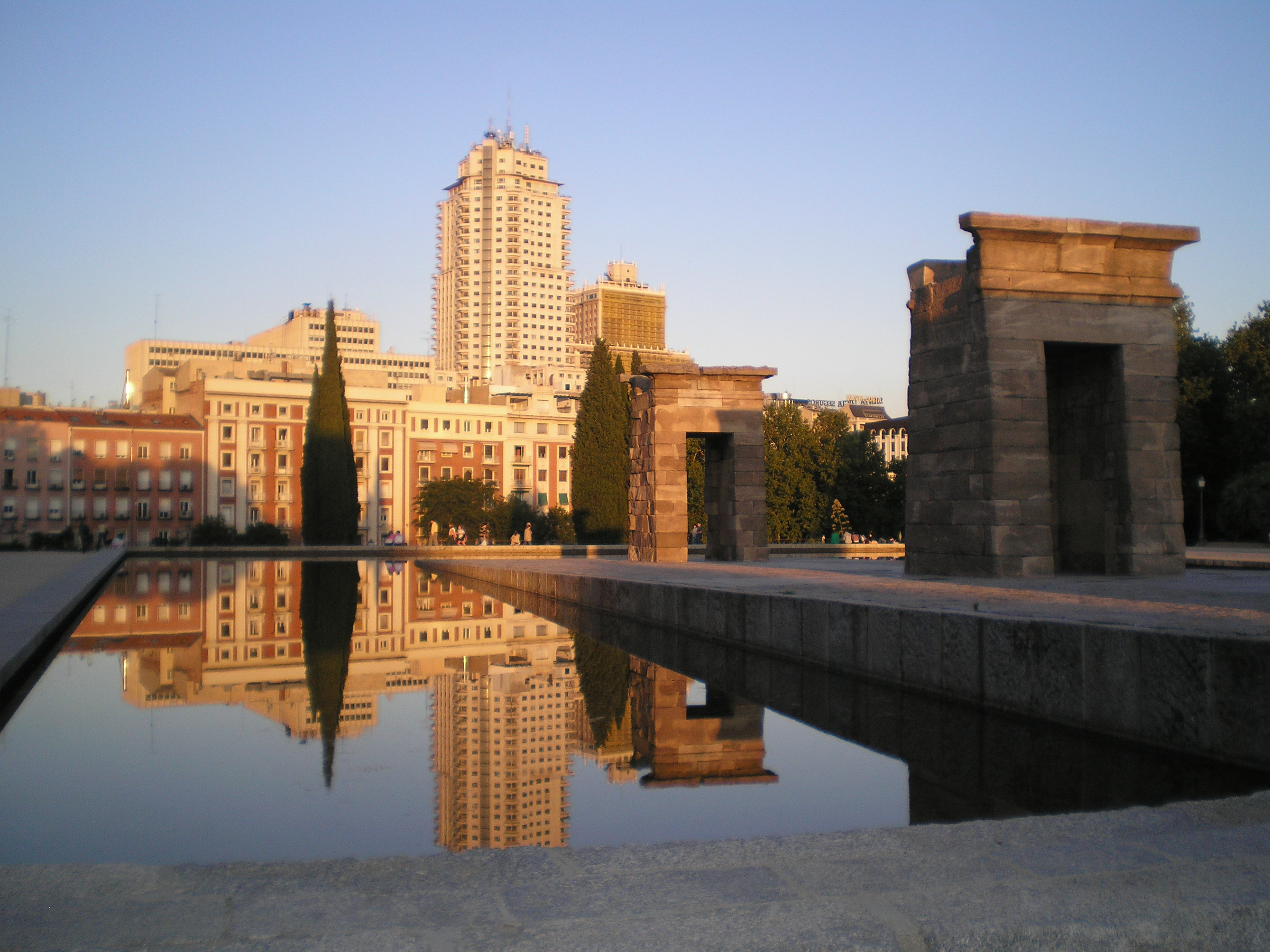 Temple of Debod with Madrid Tower in the background, Madrid, Spain.